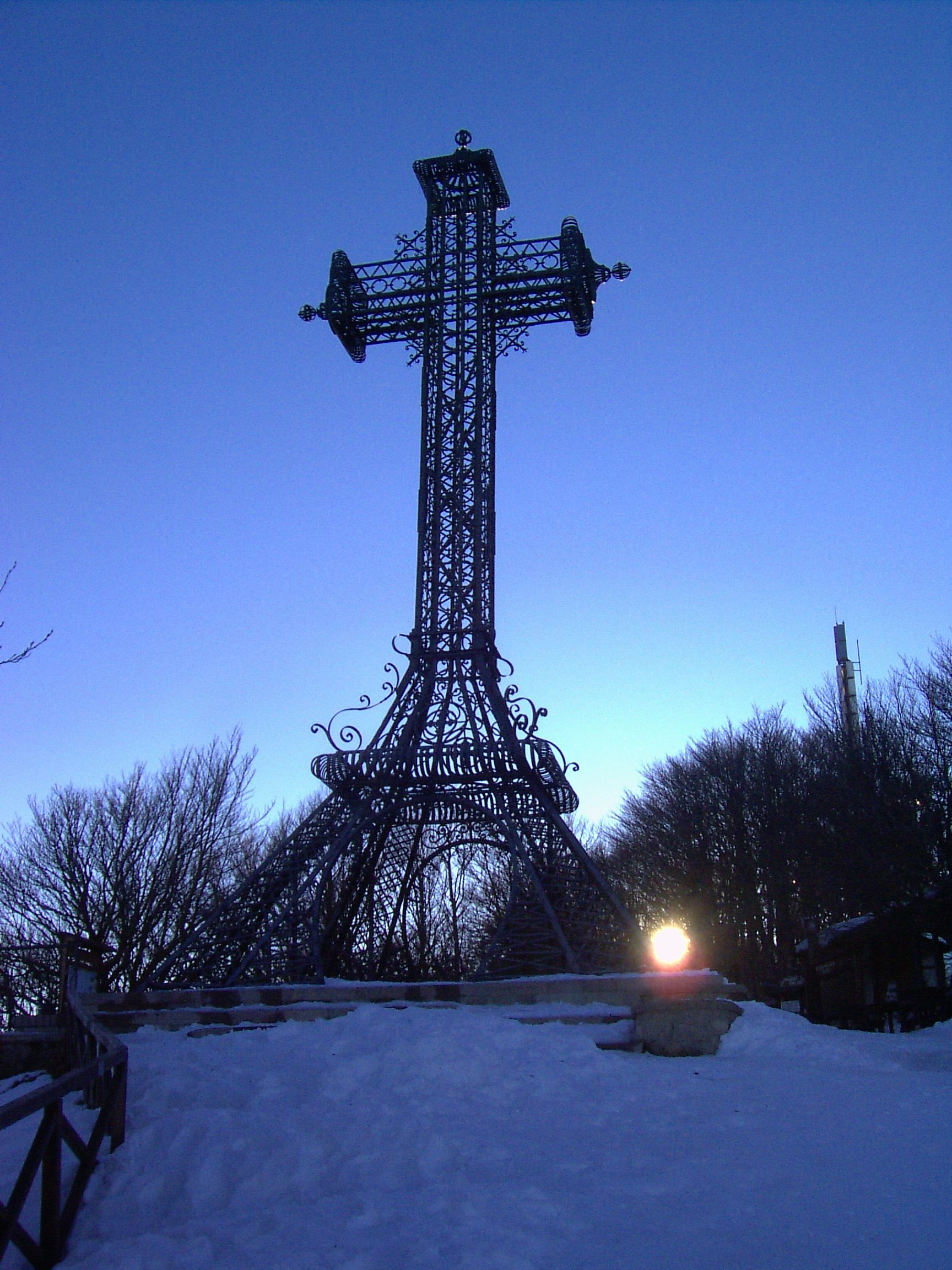 Amiata's cross, feb 011 (do not believe to the given creation date!!).